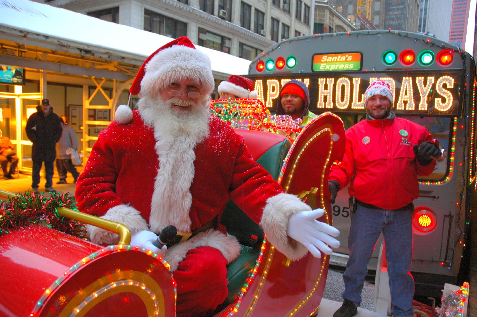 The CTA holiday 'L' train in Chicago, Illinois.